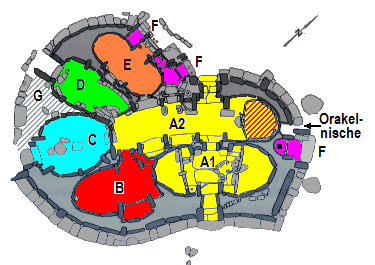 map of south temple of Hagar Qim, Malta